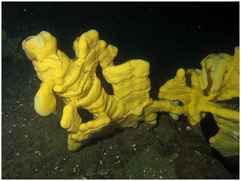 Caption:Cloud sponges are found down around 100' in areas with little or nor current. they are very fragile, as they are made out of tiny glass crystals. Scientific Name Aphrocallistes vastus Common name: Cloud Sponges Collection location: Brentwood Bay, Vancouver Island, British Columbia, Canada